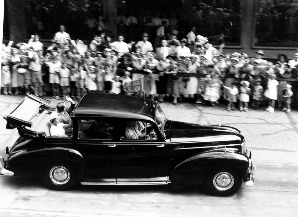 Queen Elizabeth II and Prince Philip wave to the crowds from a Humber car during their visit to Brisbane in 1954 The roof of the car opened at the back above the royal passengers, while the driver is covered. The Royal Standard, the flag which flies from The Queen's car during official tours, can be seen flying from the car's roof.